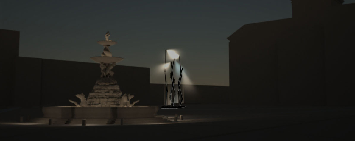 Model of a proposed monument to the Nazi book burning at Residenzplatz in the city of Salzburg on April 30, 1938; work by Salzburg architect Max Rieder